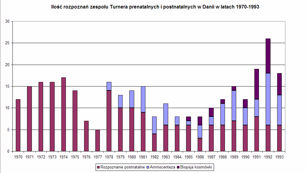 Diagram showing prenatal and postnatal diagnosis of Turner's syndrome by year (data from Gravholt et al. (1996)